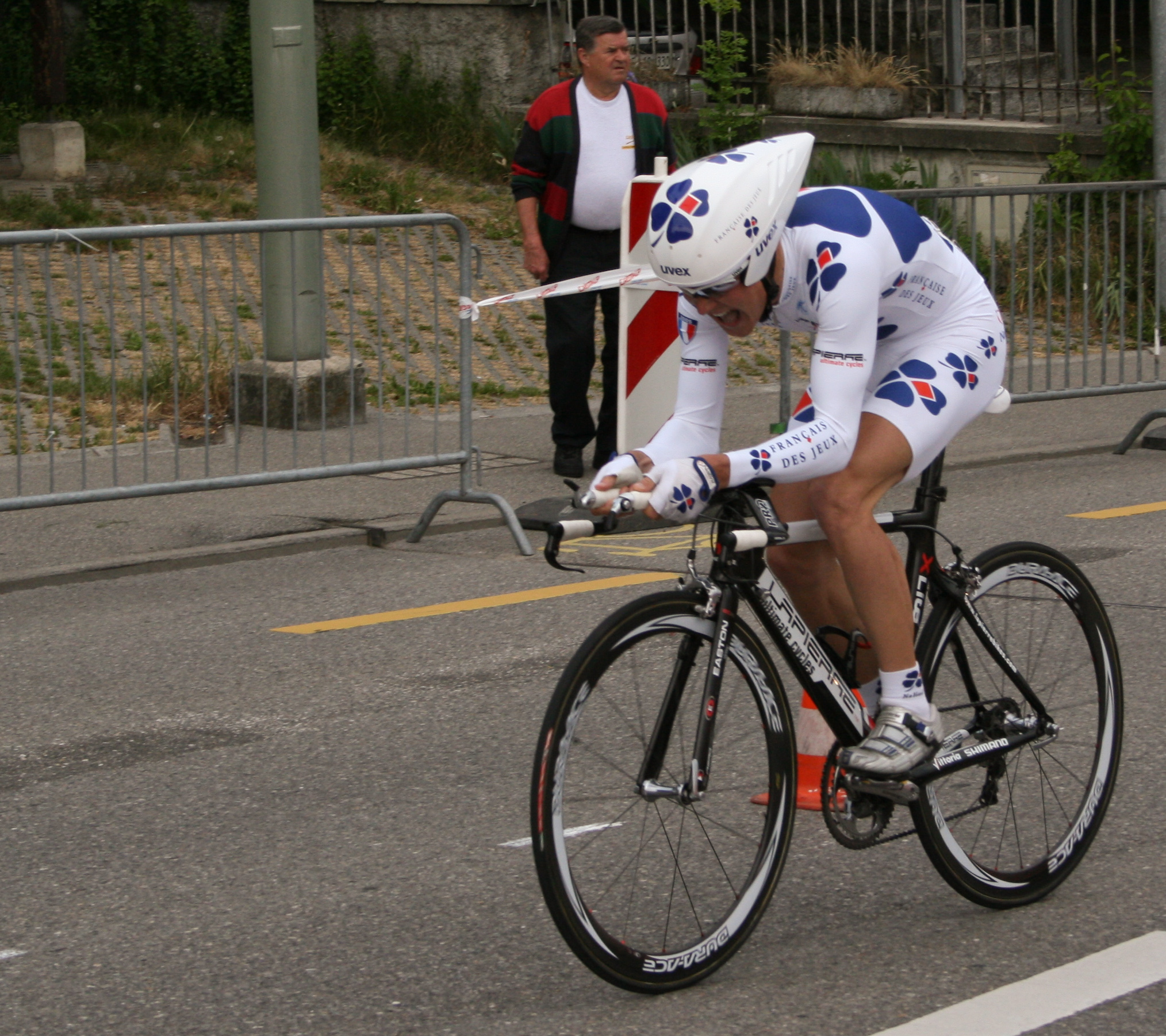 Jussi Veikkanen riding the Tour de Romandie prologue in 2007.